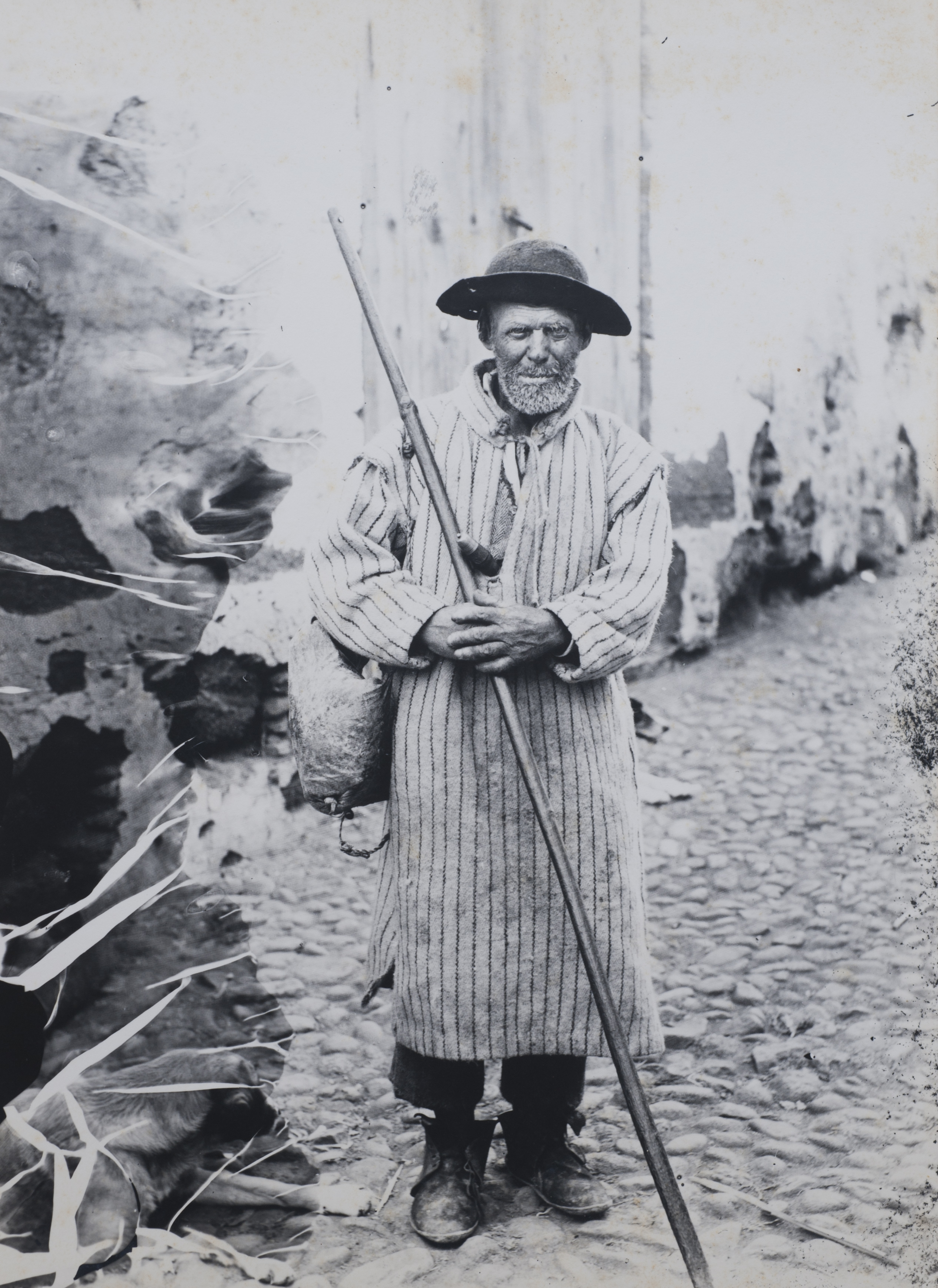 Photo of a farmer from Gran Canaria (Canary Islands) wearing the traditional Gran Canaria's "cuchillo canario" (Canary knife).